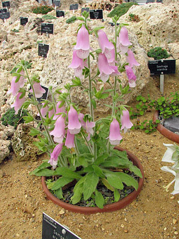 A mediterranian plant